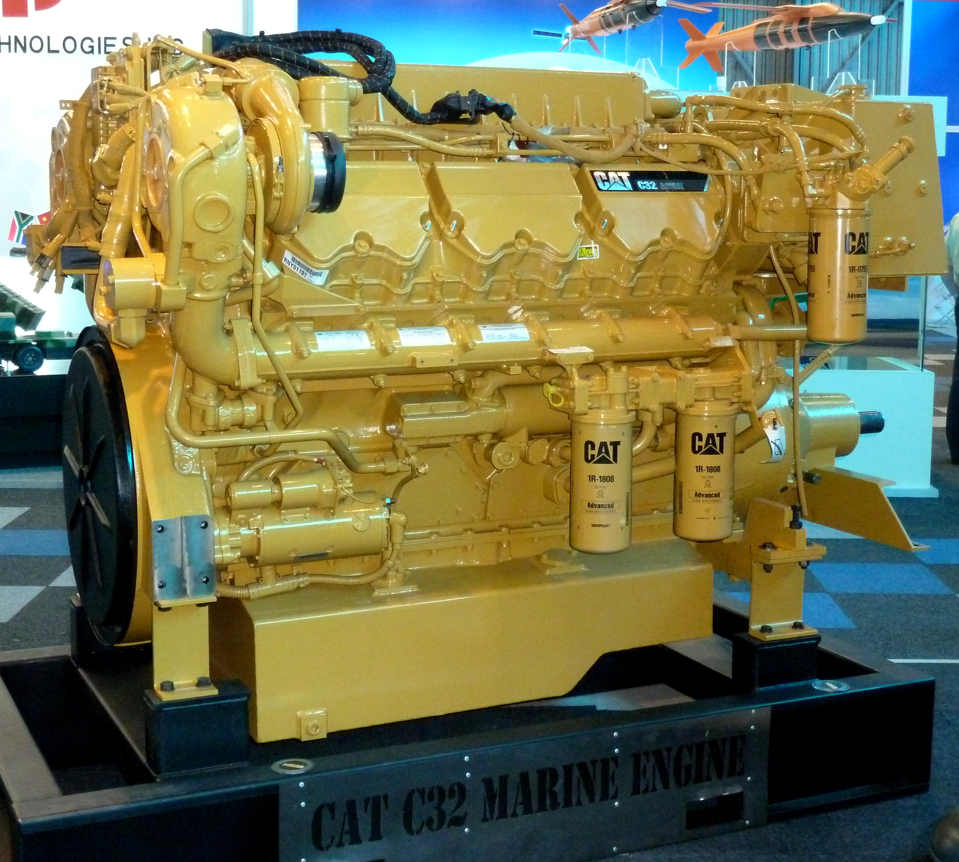 Caterpillar's C32 Marine engine in exhibition hall at Waterkloof AFB, Pretoria Caterpillar-brand engine encased in its yellow enclosure. On the right there is a cylindrical oil filter, and slightly below the middle left another two oil filters side by side, with text, reading "CAT 1R-1808 - Advanced". At the bottom it reads "CAT C32 MARINE ENGINE". On the upper right there is a black plate reading "CAT C32", along with some unreadable text. Several white quality check stickers glued on the engine.